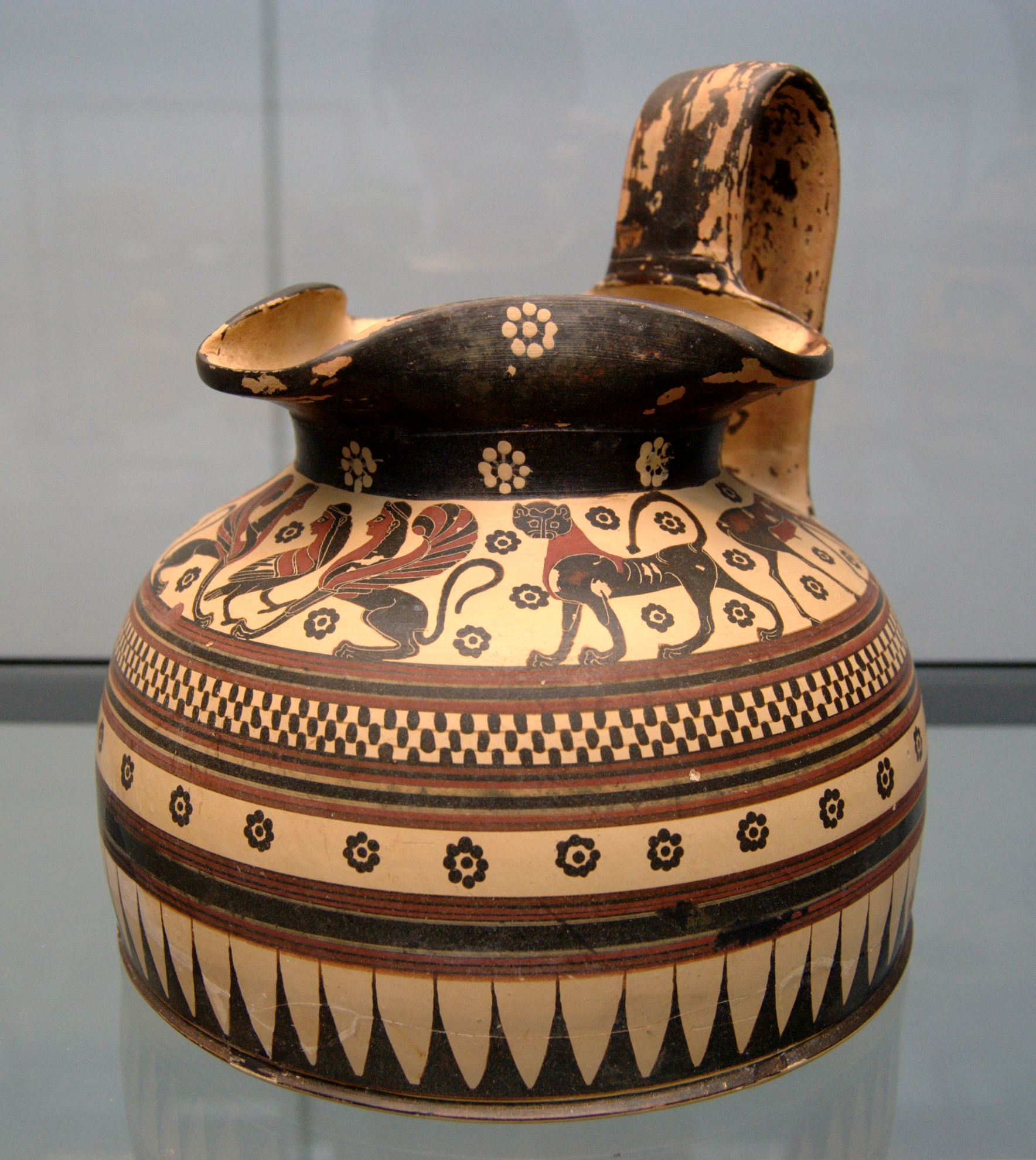 Oinochoe, Corinthian “animal frieze” style, ca. 630 BC.